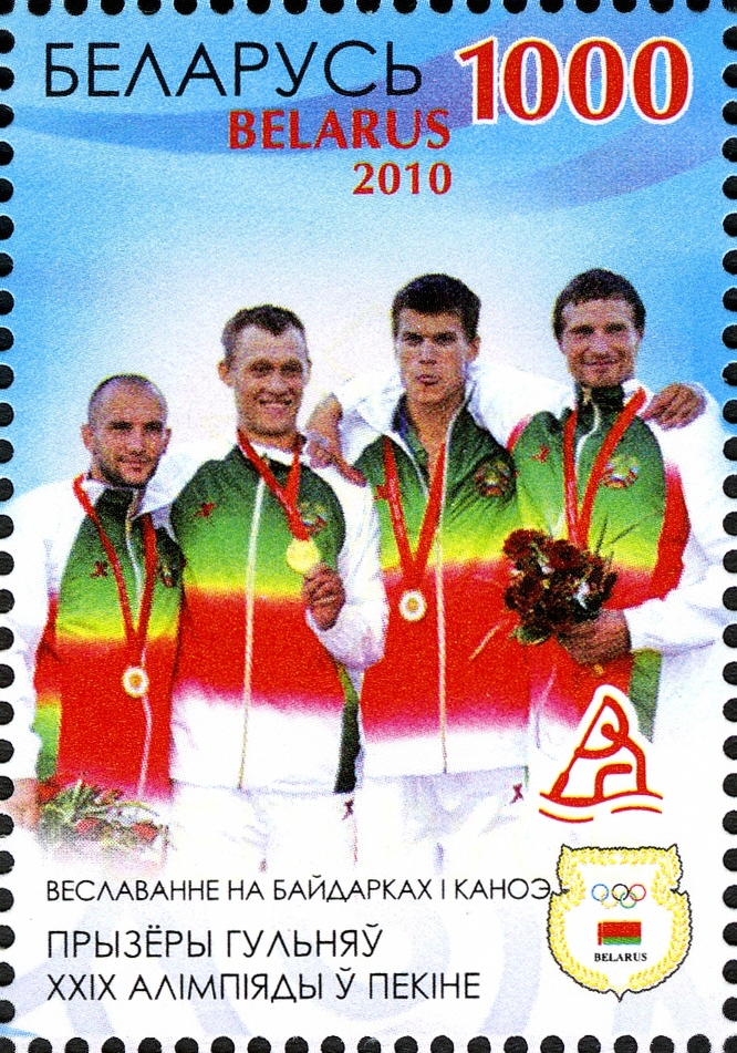 Medal Winners at XXIX Olympic Summer Games in Beijing - Rowing and Canoeing